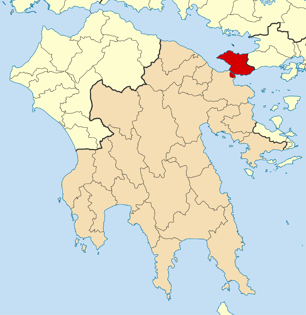 Locator map for Loutraki-Agii Theodori municipality in Greek region Peloponnese (2011)